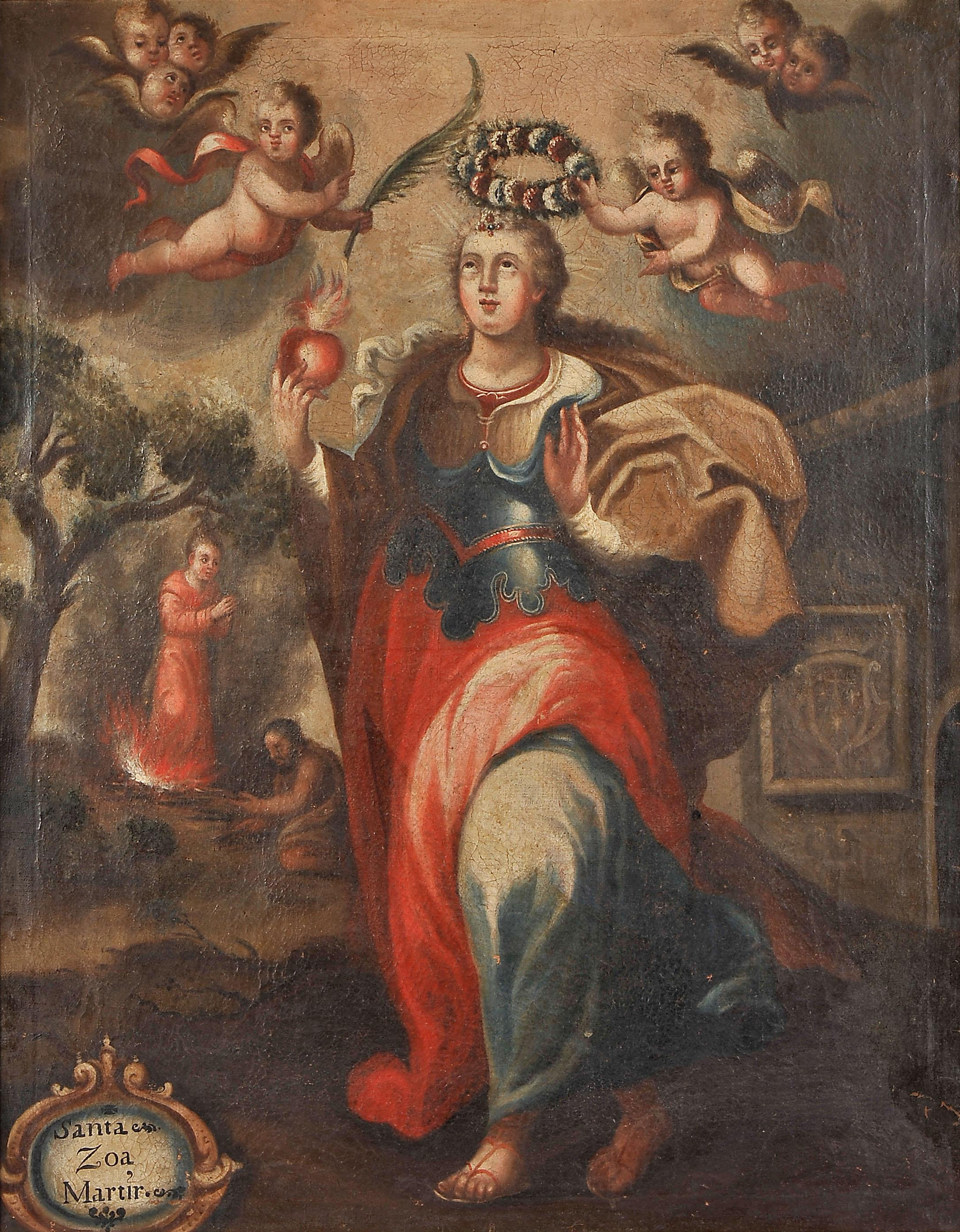 18th-century Portuguese painting of Saint Zoe of Rome